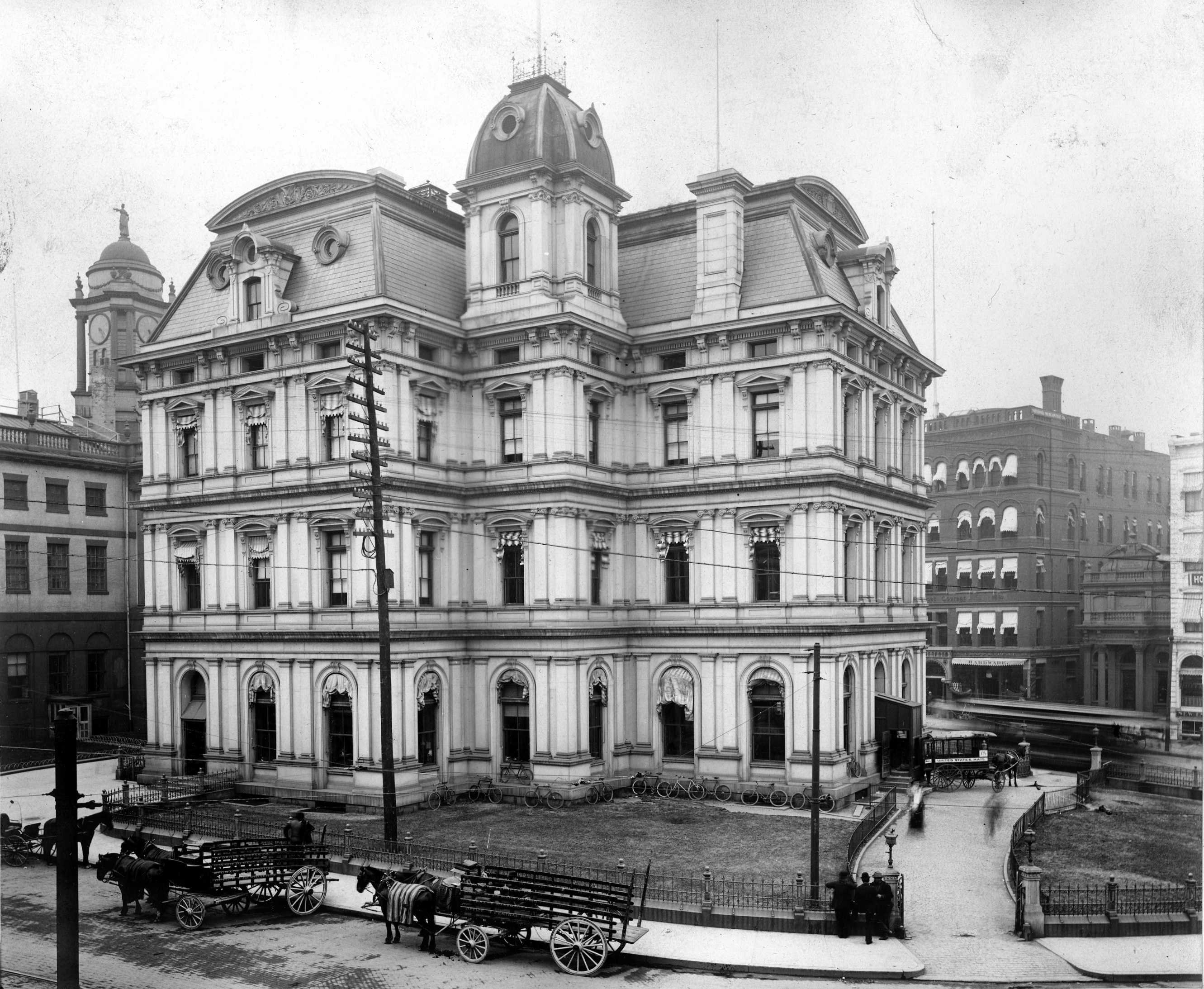 U.S. Post Office and Customhouse, Hartford, Conneticut (1903) Completed in 1882. Supervising Architect: Alfred B. Mullet The U.S. District Court for the District of Connecticut met here until 1933; the U.S. Circuit Court for the District of Connecticut met here until that court was abolished in 1912. Razed in 1934.